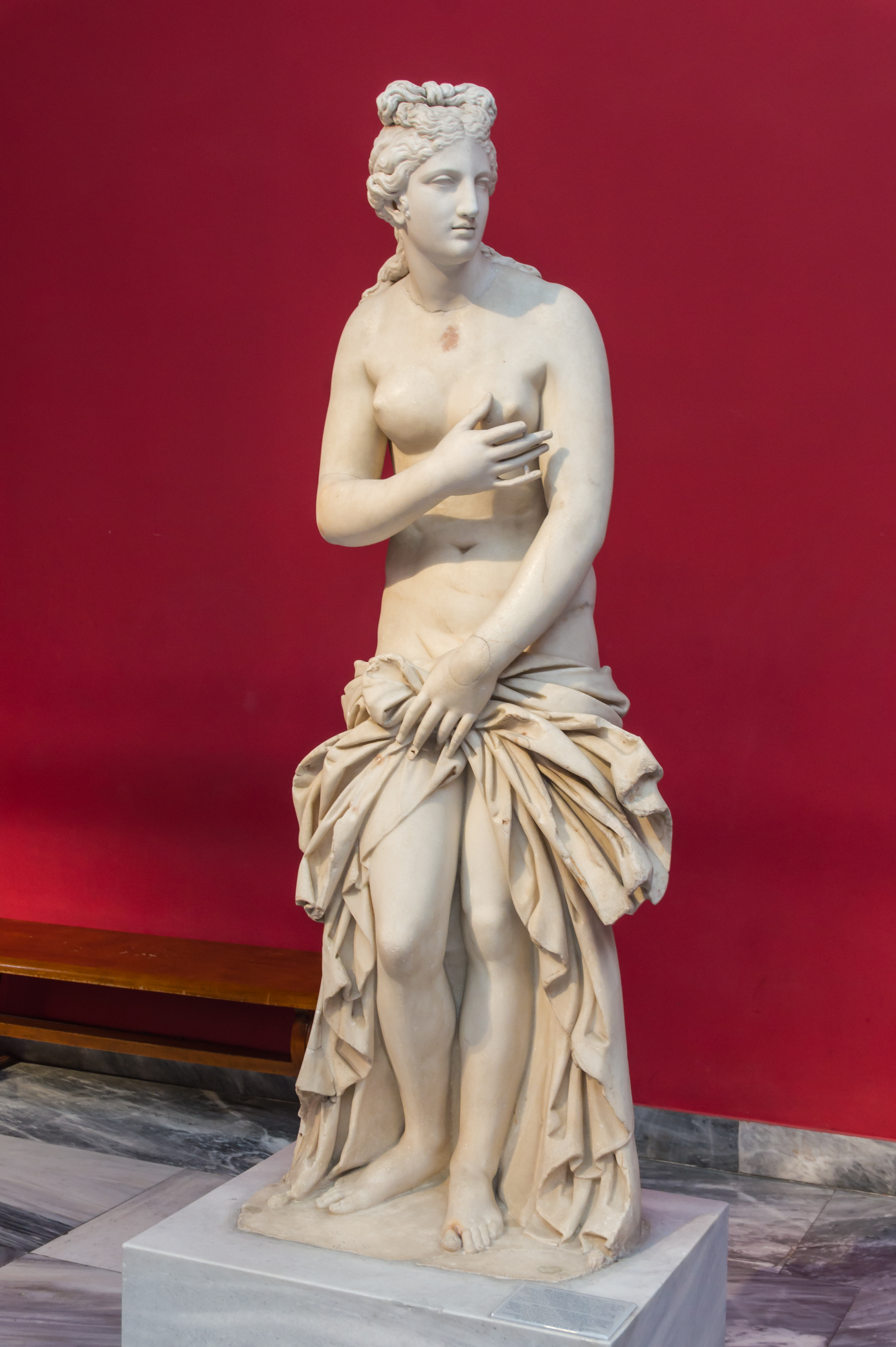 Statue of Aphrodite, parian marble. Version of the 2nd c. CE, after an original of the 4th c. BCE, the "Syracuse Aphrodite". The neck, the head and the right arm were restored by Antonio Canova (1757 - 1822). N°3524